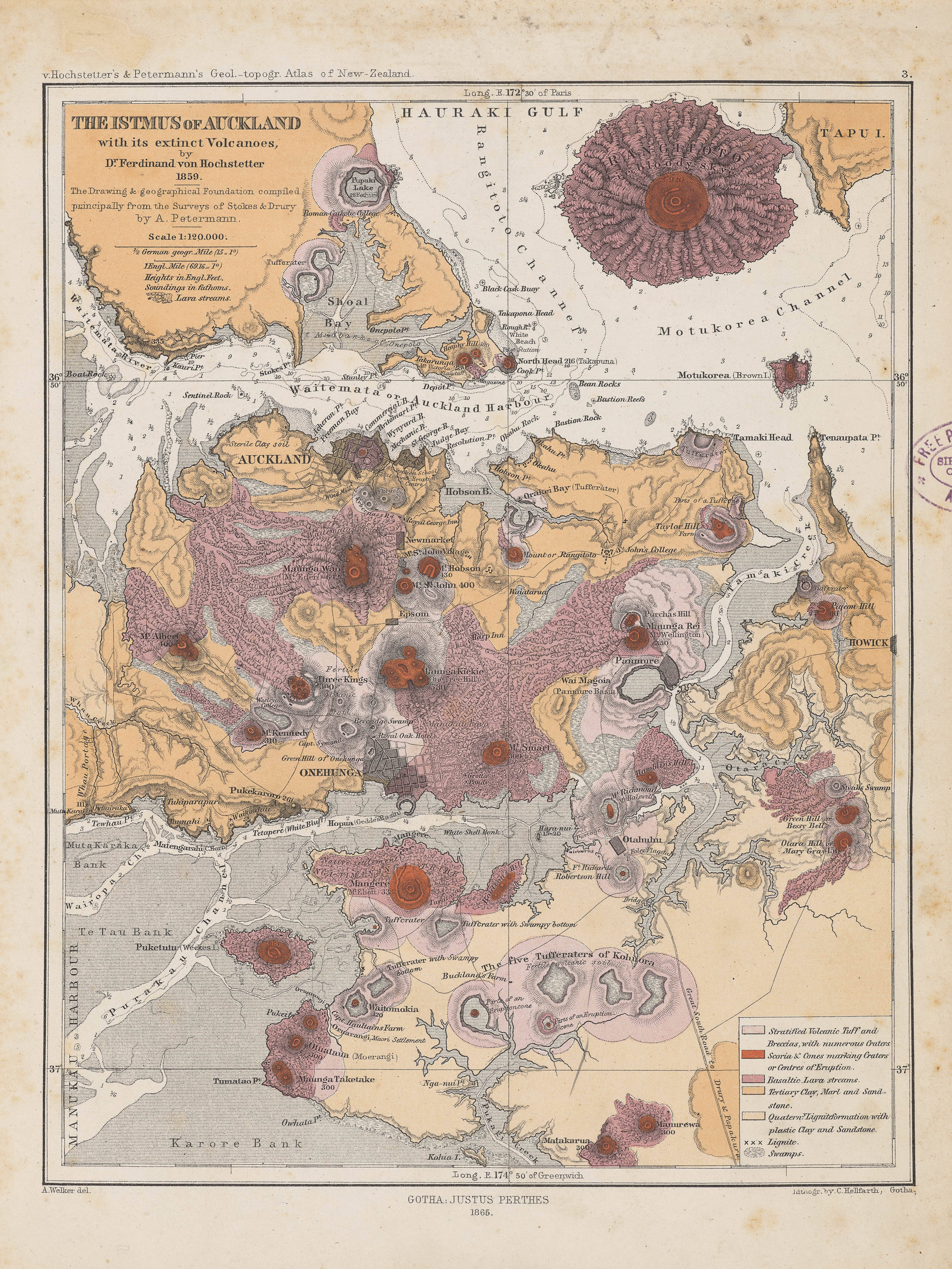 A map of the Auckland Volcanic Field by Ferdinand von Hochstetter, 1864. Originally published in Geologisch-topographischer Atlas von Neu-Seeland (Hochstetter and Petermann, 1863), and republished in English in 1864.